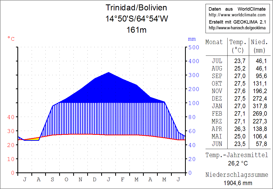 Climate chart in the Walter and Lieth format, metric, °Celsius und millimeters, made with Geoklima 2.1